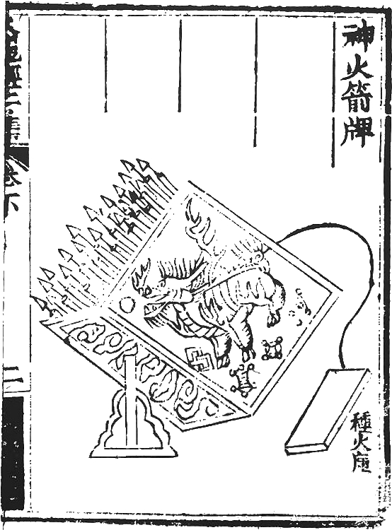 Depiction of a fire arrow rocket launcher, or shen huo chien phai, from the Ming Dynasty book Huo Long Jing